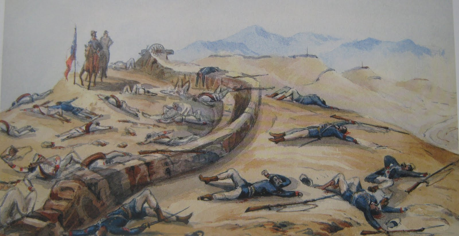 La línea peruana de San Juan después de la batalla Acuarela de Rudolph de Lisle